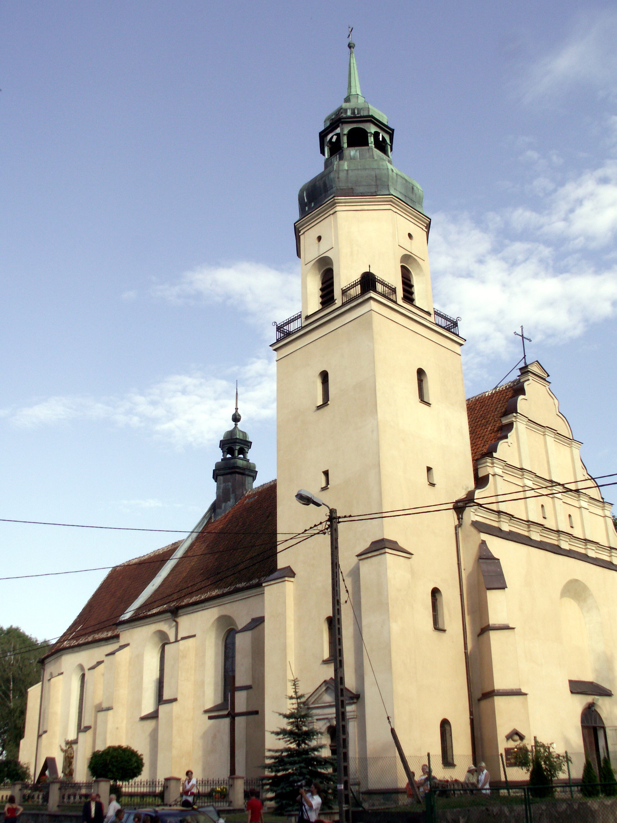 Saints John the Baptist and Michael Archangel church in Lubawa, Poland